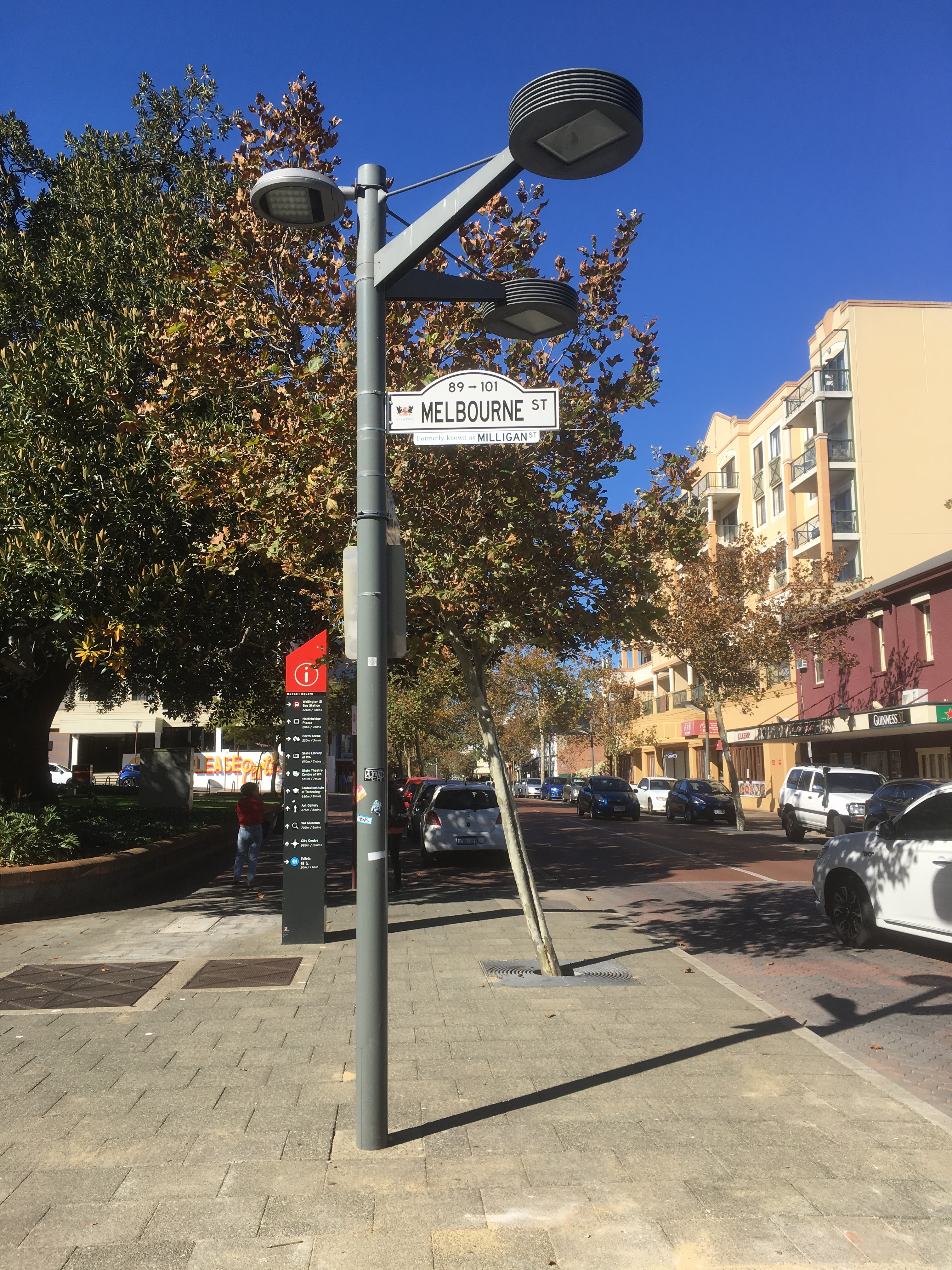 City of Perth Melbourne Street sign, corner James Street, Perth